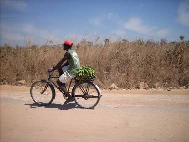 This is an image with the theme "Africa on the Move or Transport" from: Angola